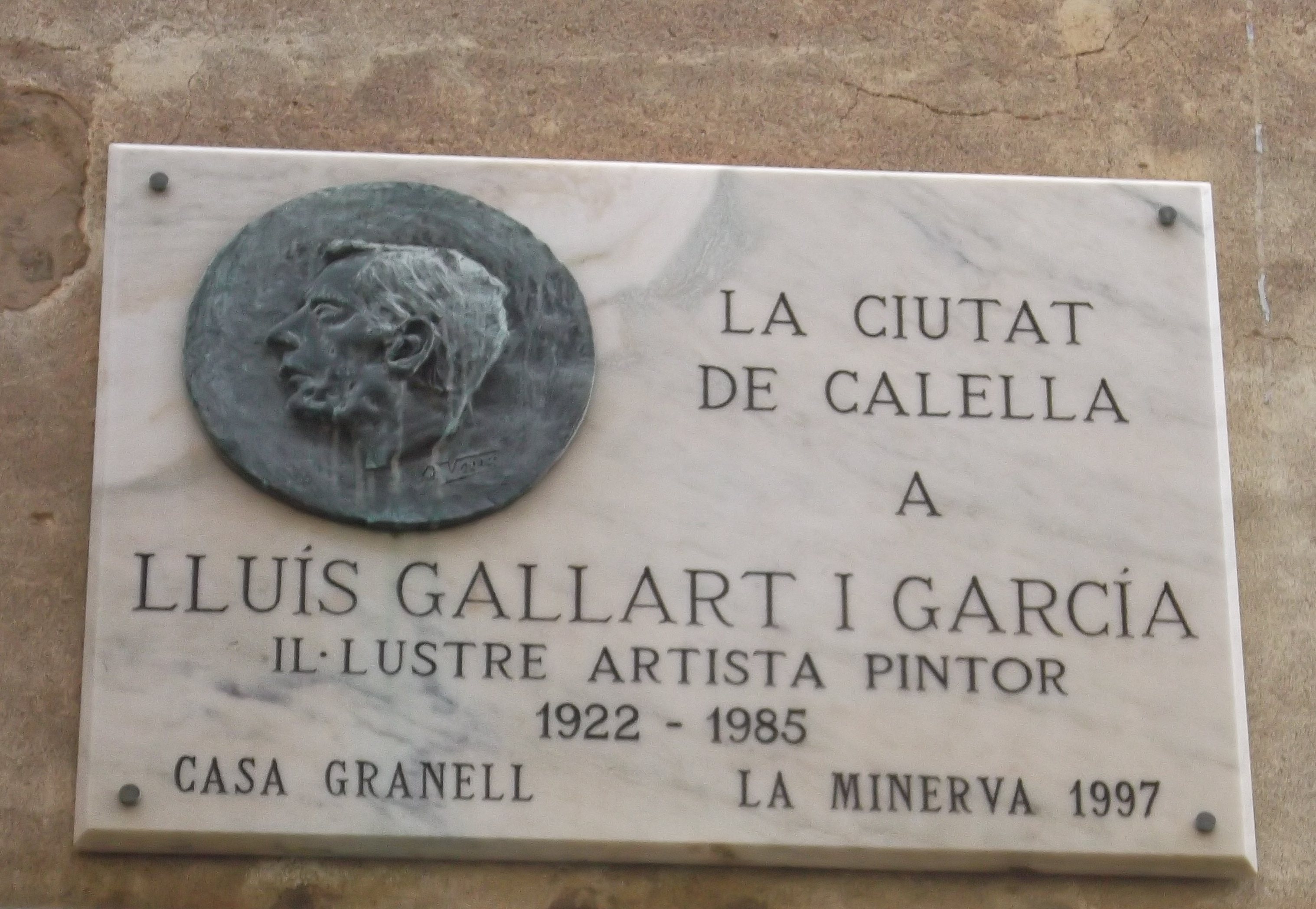 Commemorative plaque of the Catalan painter Lluís Gallart